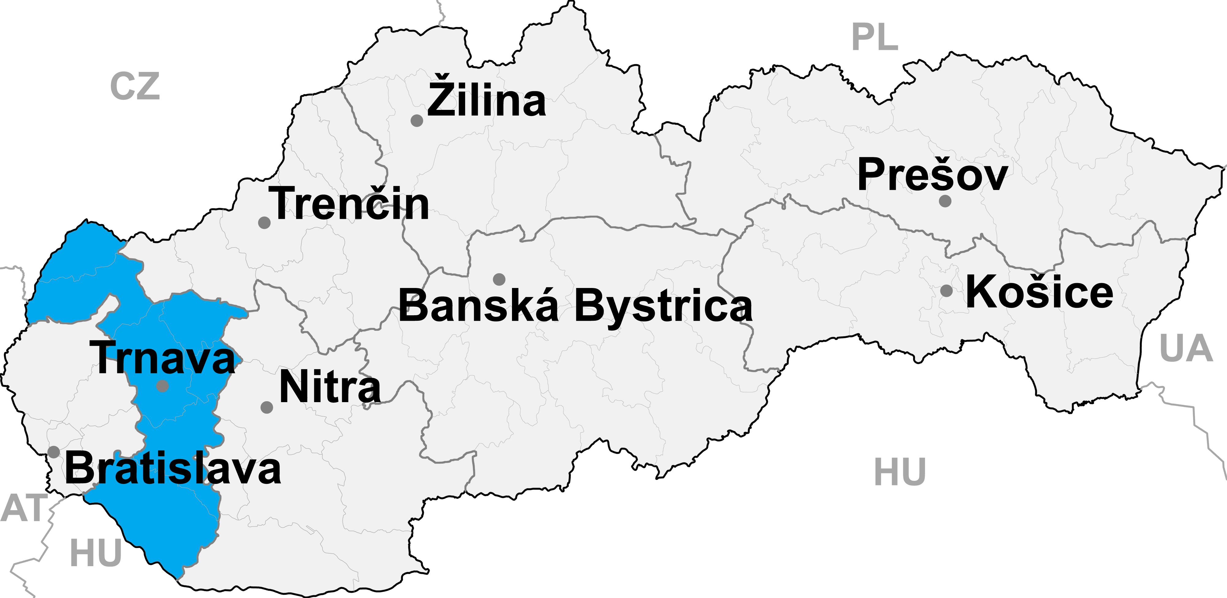 map of Slovakia, district (kraj) of Trnava highlighted